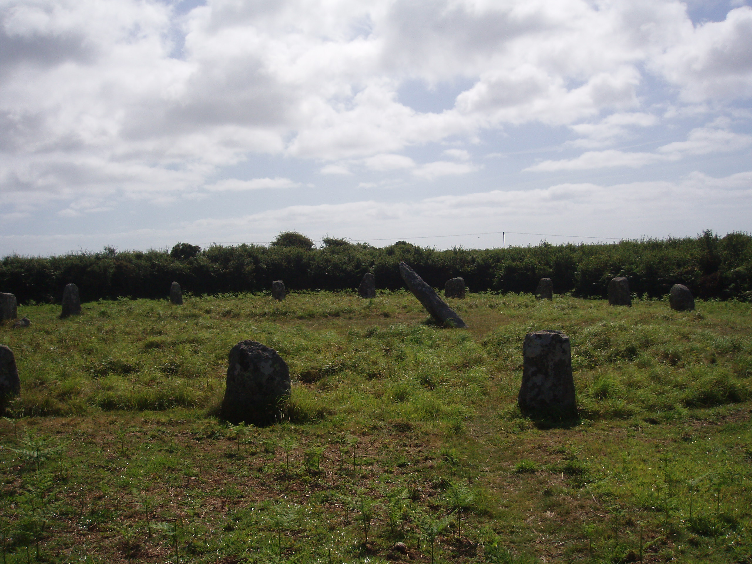 Boscawen-Un stone circle looking north near St Buryan.